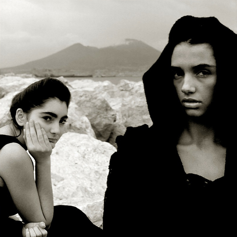 Photo - Black and White - Augusto De Luca photographer